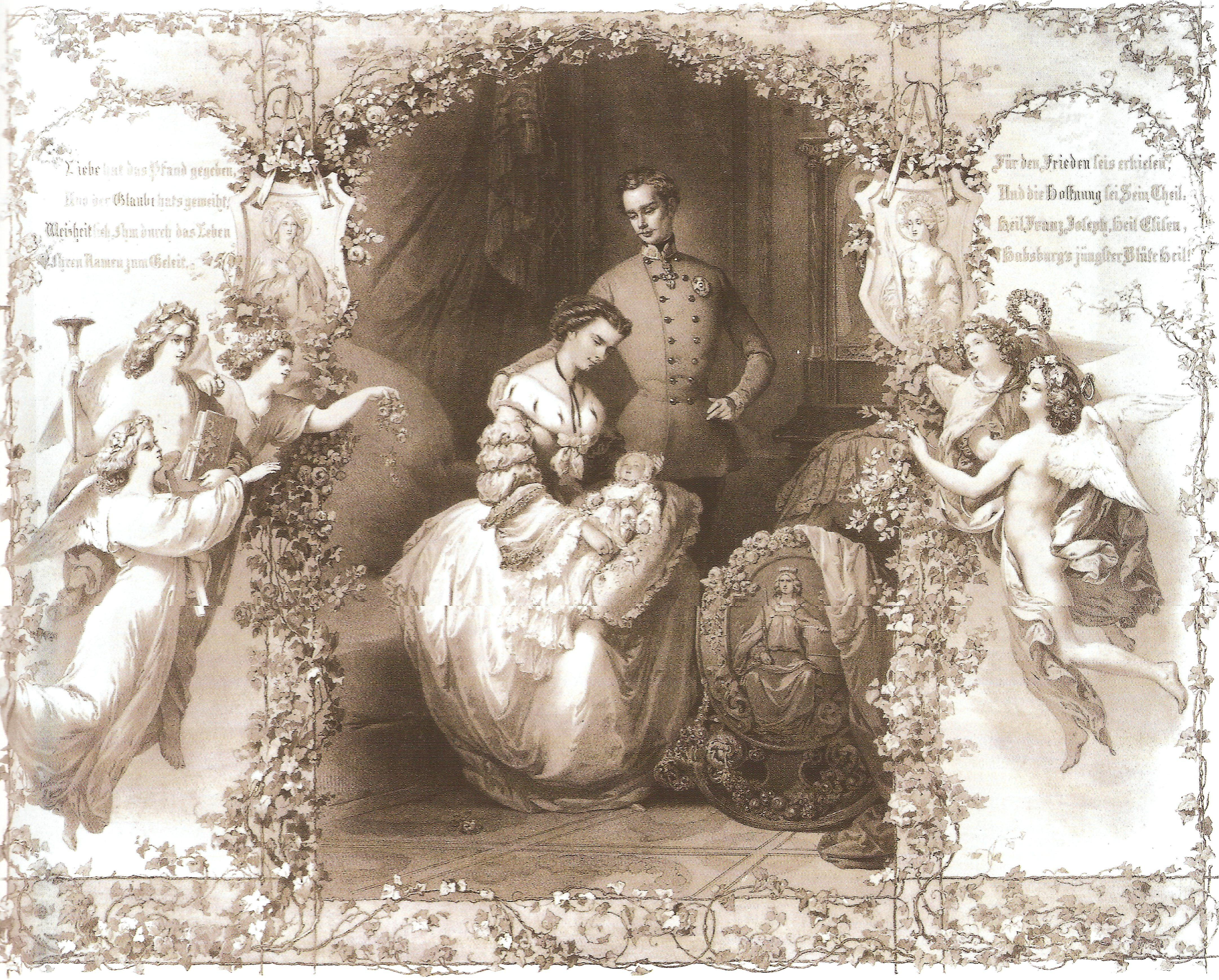 Empress Sisi with her husband, Franz Joseph and their first-born child, Sophie.